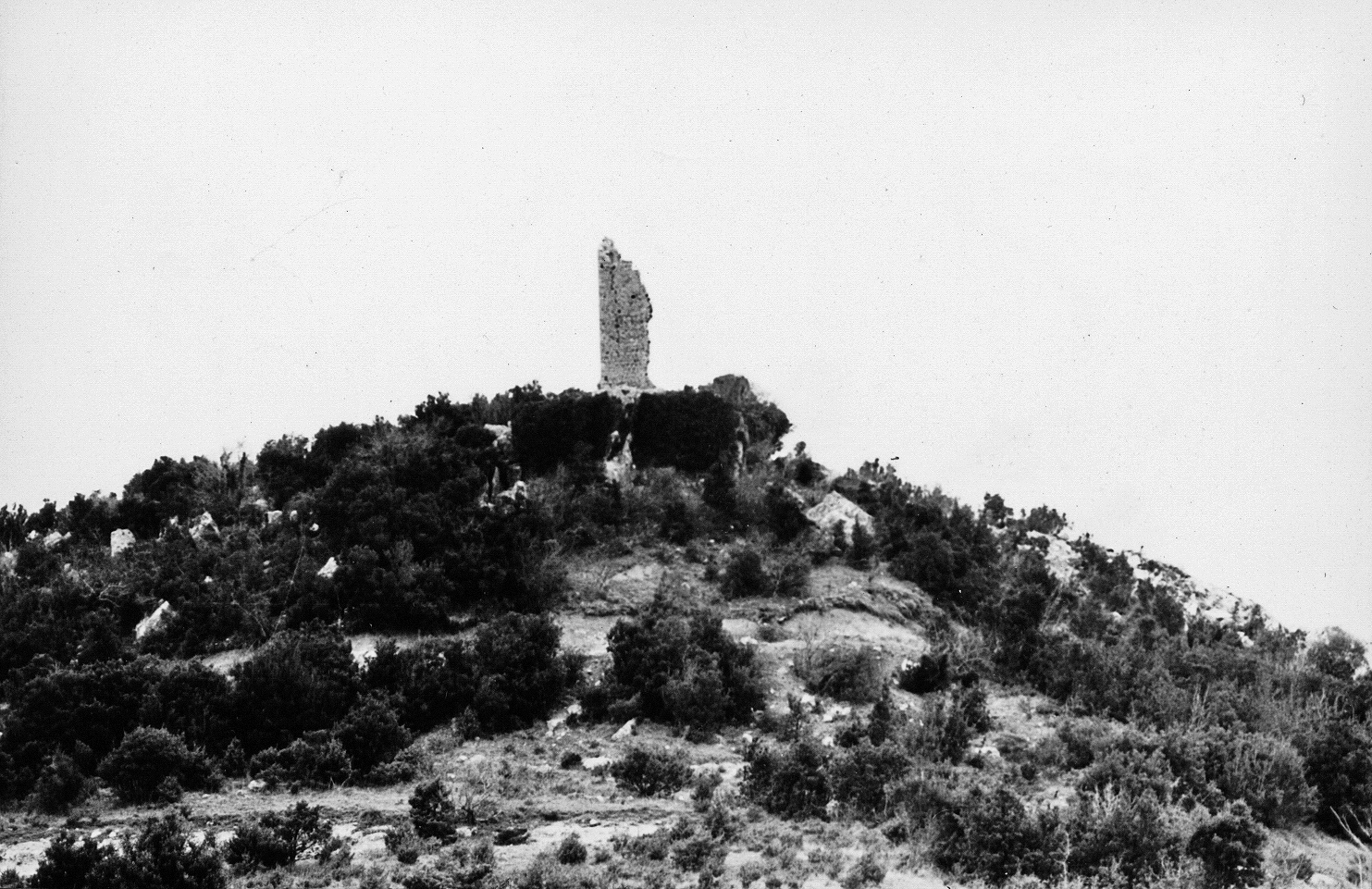 Showing the antique Romanesque tower in Brovinje